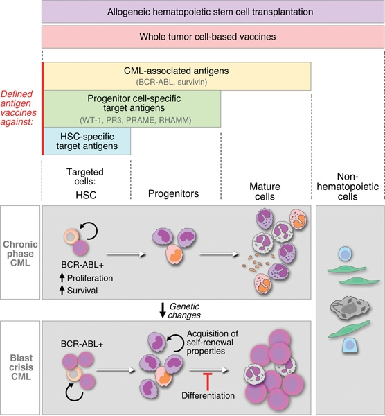 In the example of CML, increased capacity for malignant self-renewal can arise from transformation of the hematopoietic stem cell (HSC) to give rise to chronic phase CML or from more differentiated progenitor cells, to give rise to blast crisis CML. Leukemic stem cell activity can result from impaired differentiation, increased cell survival, increased proliferation, increased genomic instability and/or increased self-renewal capacity. Examples of vaccination strategies are provided.